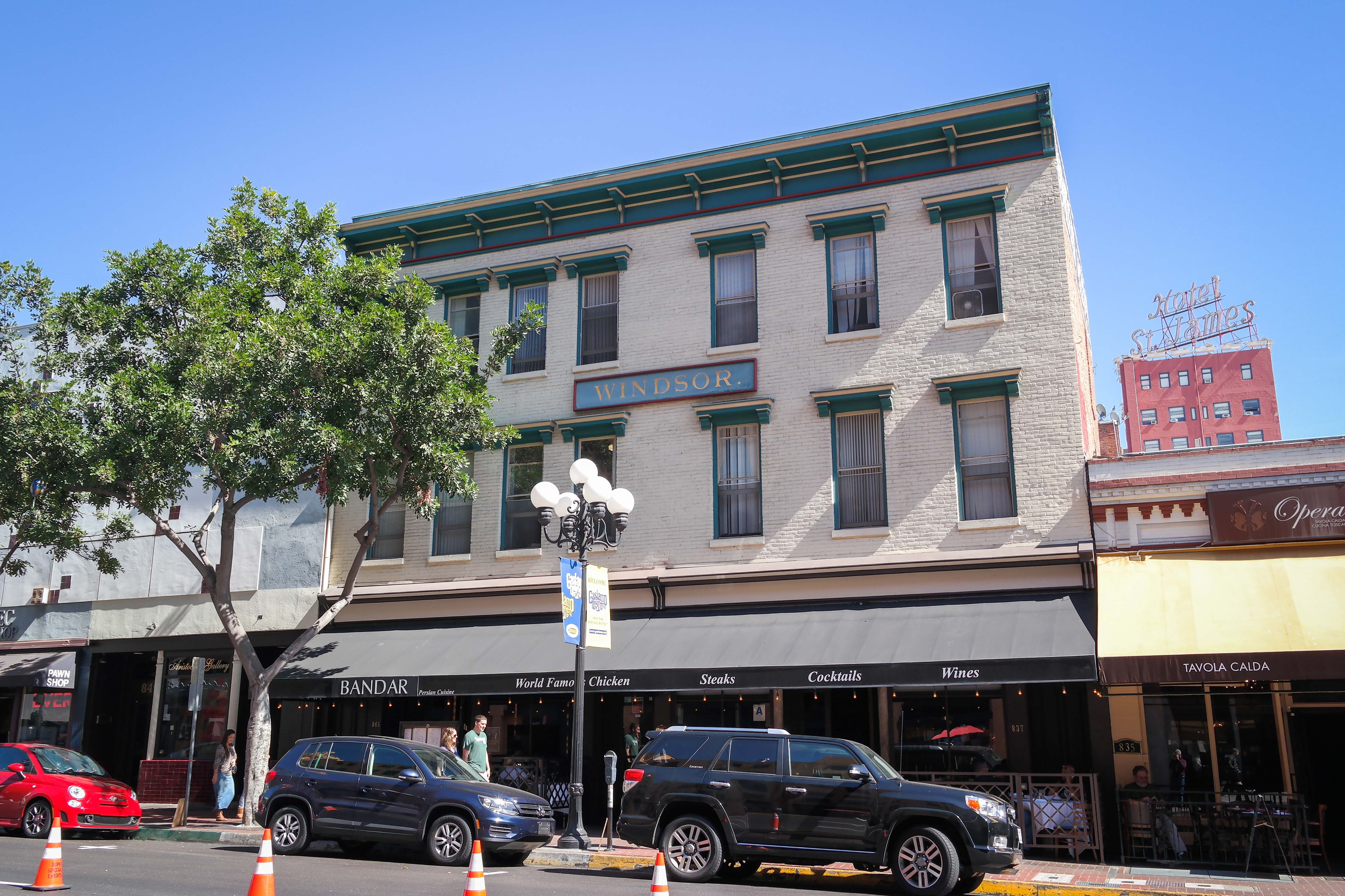 Historic Building Survey plaque: "18 The Windsor Hotel, 1887. The second floor of this site has been called the Windsor Hotel since construction. It consists of 31 rooms and has been modified enough to continue operating as a comfortable, modern hotel. The first floor was once a pool hall, and in the 1960s it was used for cardrooms and nightclubs complete with go-go dancers. San Diego Hardware occupied the west part of the first floor in the 1920s and again in the 1990s."